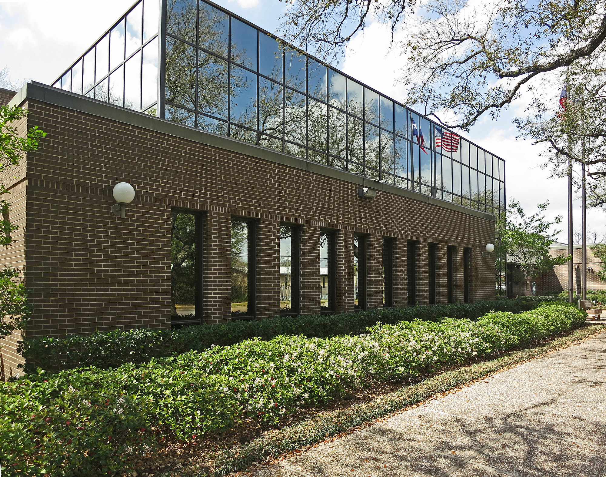 William Wright Baldwin, president of the South End Land Company, founded Bellaire in 1908 on part of the 9,449-acre ranch once owned by William Marsh Rice, benefactor of Rice Institute (now Rice University). Baldwin surveyed the eastern 1,000 acres of the ranch into small truck farms, which he named Westmoreland Farms. He platted Bellaire in the middle of the farms to serve as an exclusive residential neighborhood and agricultural trading center. The project was separated from Houston by approximately six miles of prairie. South End Land Company advertisements, targeted to midwestern farmers, noted that Bellaire ("Good Air") was named for the area's Gulf breezes. The original townsite was bounded by Palmetto, First, Jessamine, and Sixth (now Ferris) streets. Bellaire Boulevard and an electric streetcar line connected Bellaire to Houston. The town was incorporated in 1918, and C. P. Younts served as first mayor. The post-war building boom in the late 1940s and early 1950s resulted in rapid population growth. Completely surrounded by the expanding city of Houston by 1949, Bellaire nevertheless retained its independence and its own city government.